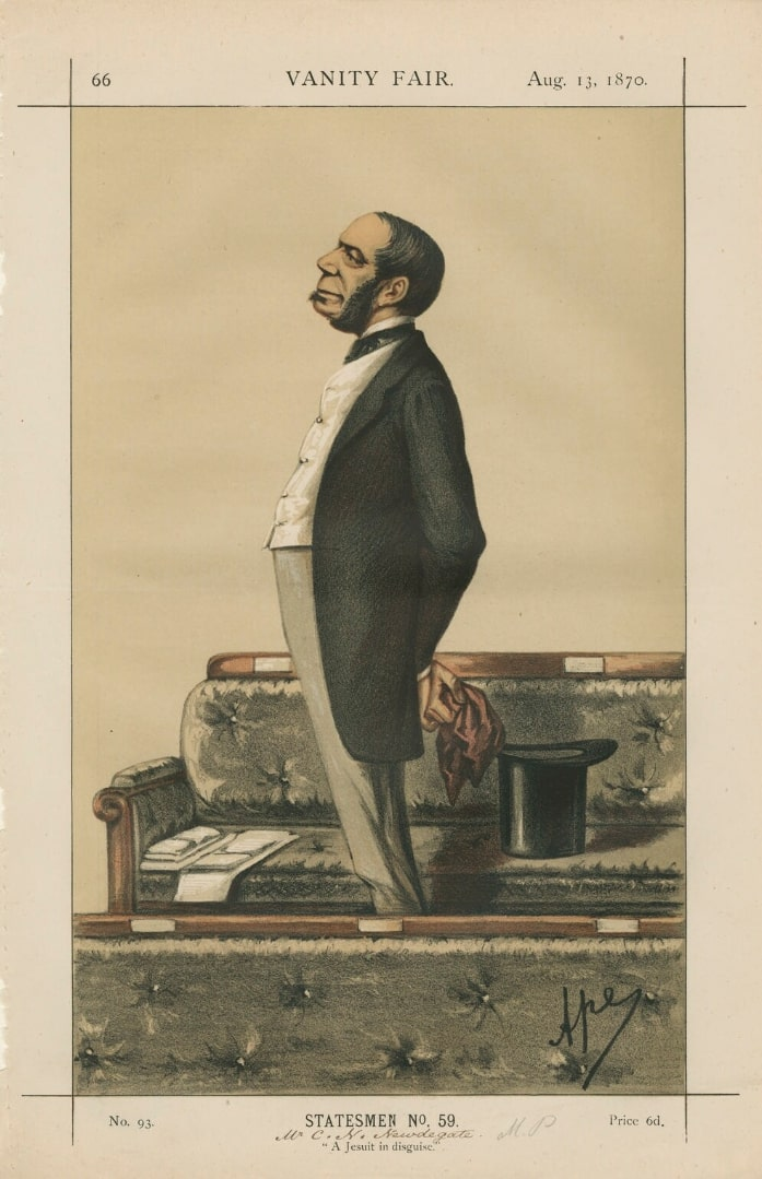 Caricature of Charles Newdigate Newdegate M.P. (1816-1887). Caption read "A Jesuit in disguise".